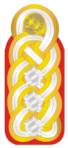 Military rang insignia of the German Democratic Republic until 1990, here: Shoulder board of the Colonel general (comparable to OF-8 NATO) Weapon colour: scarlet to – National People´s Army, Land forces GDR Civil defence Ministry of State Security of the GDR.